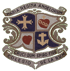 Coat of arms of Loreto Sisters congregation or IBVM (Institute of Blessed Virgin Mary), from a school program, print. 1900 ca.